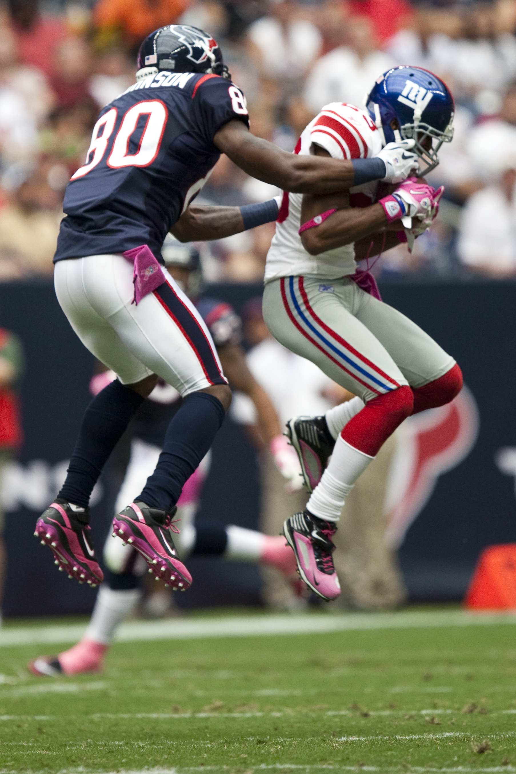 Corey Webster intercepts a pass intended for Andre Johnson. Houston Texans Vs. New York Giants. Reliant Stadium. Houston, Tx. 10-10-2010.